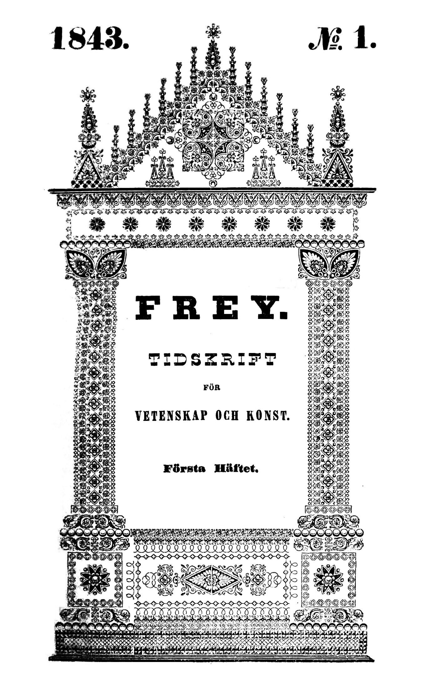 Frey. Periodical cover.